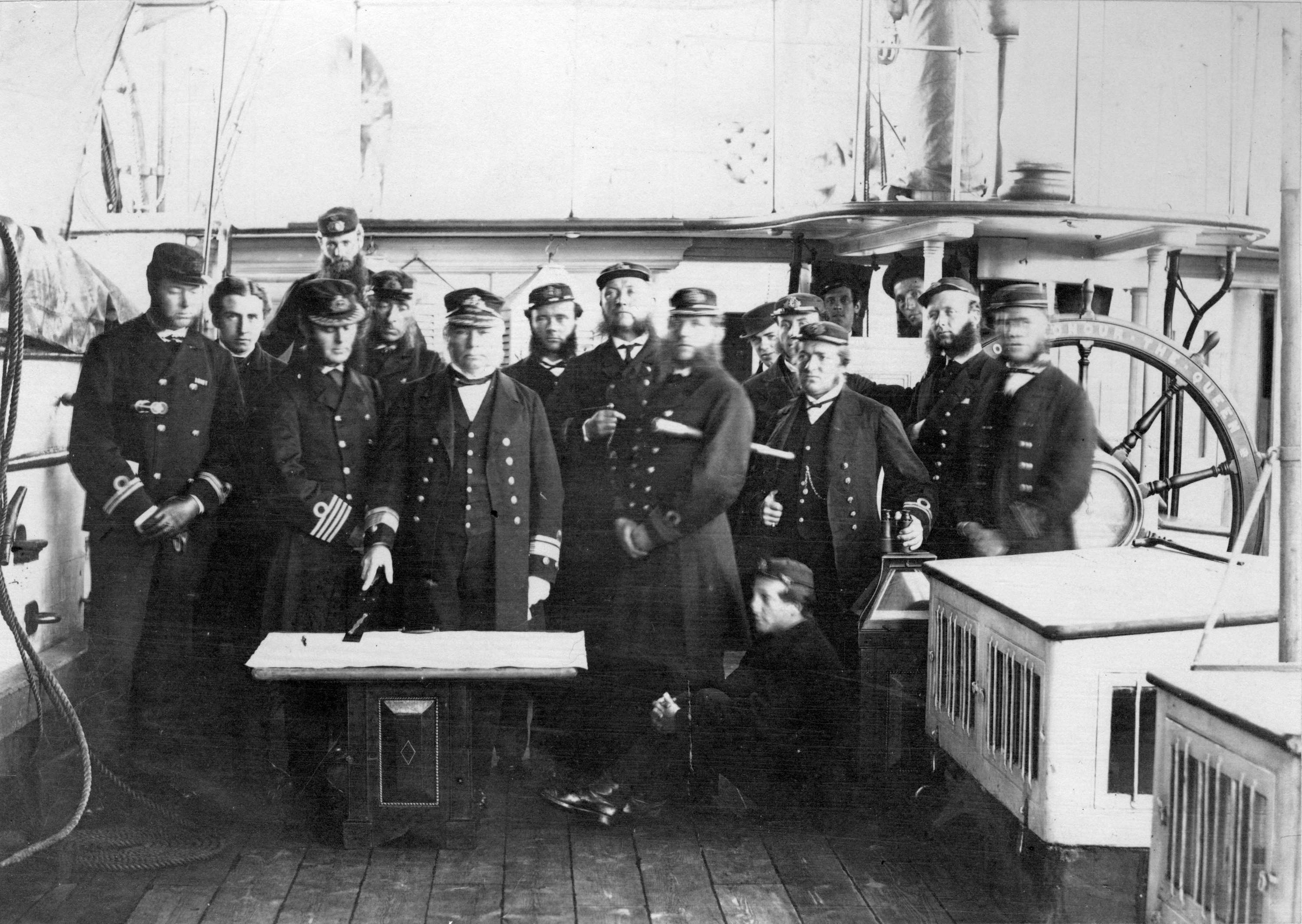 Admiral Hastings and Group of Officers on board HMS Sparrowhawk. On the Pacific Station, British Columbia, Canada.